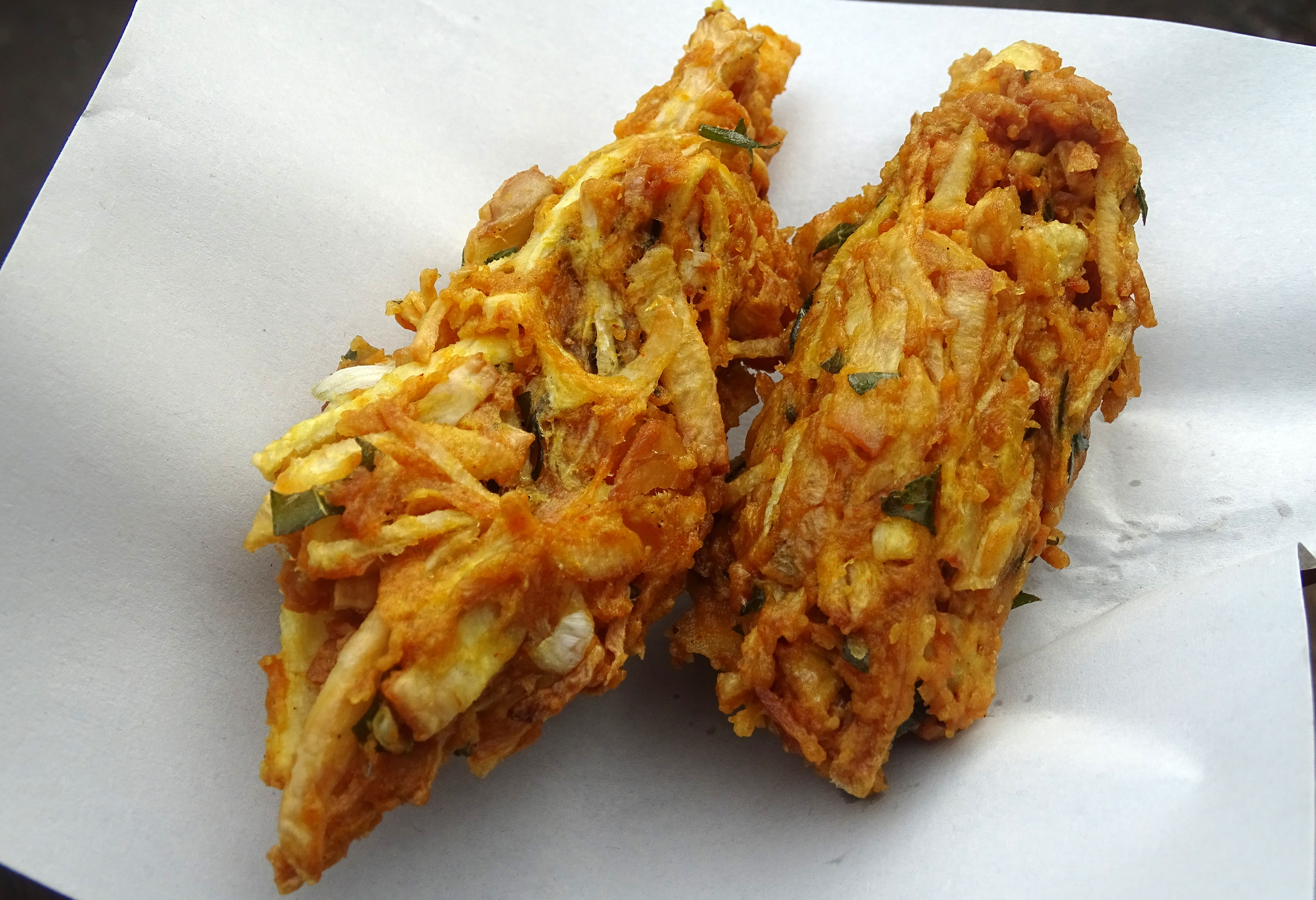 Kannur special snack